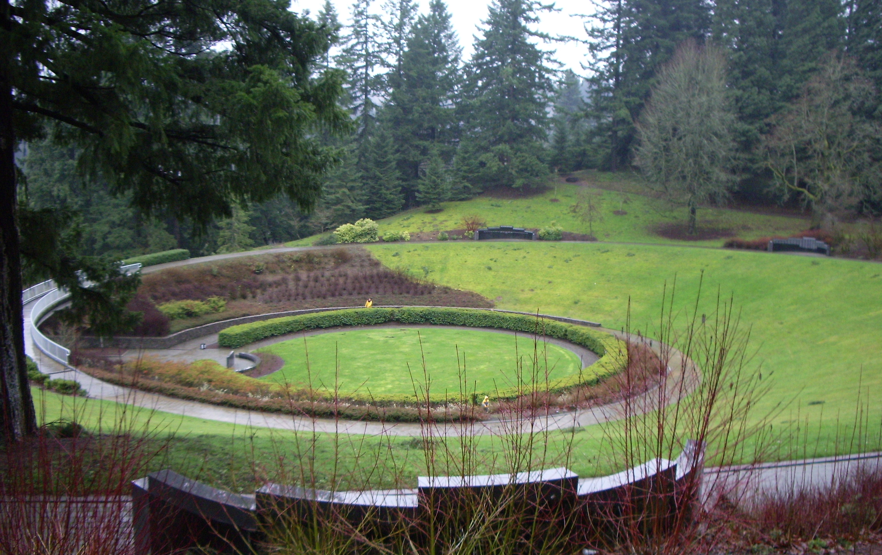 Oregon Vietnam Veterans Memorial Overview from top memorial